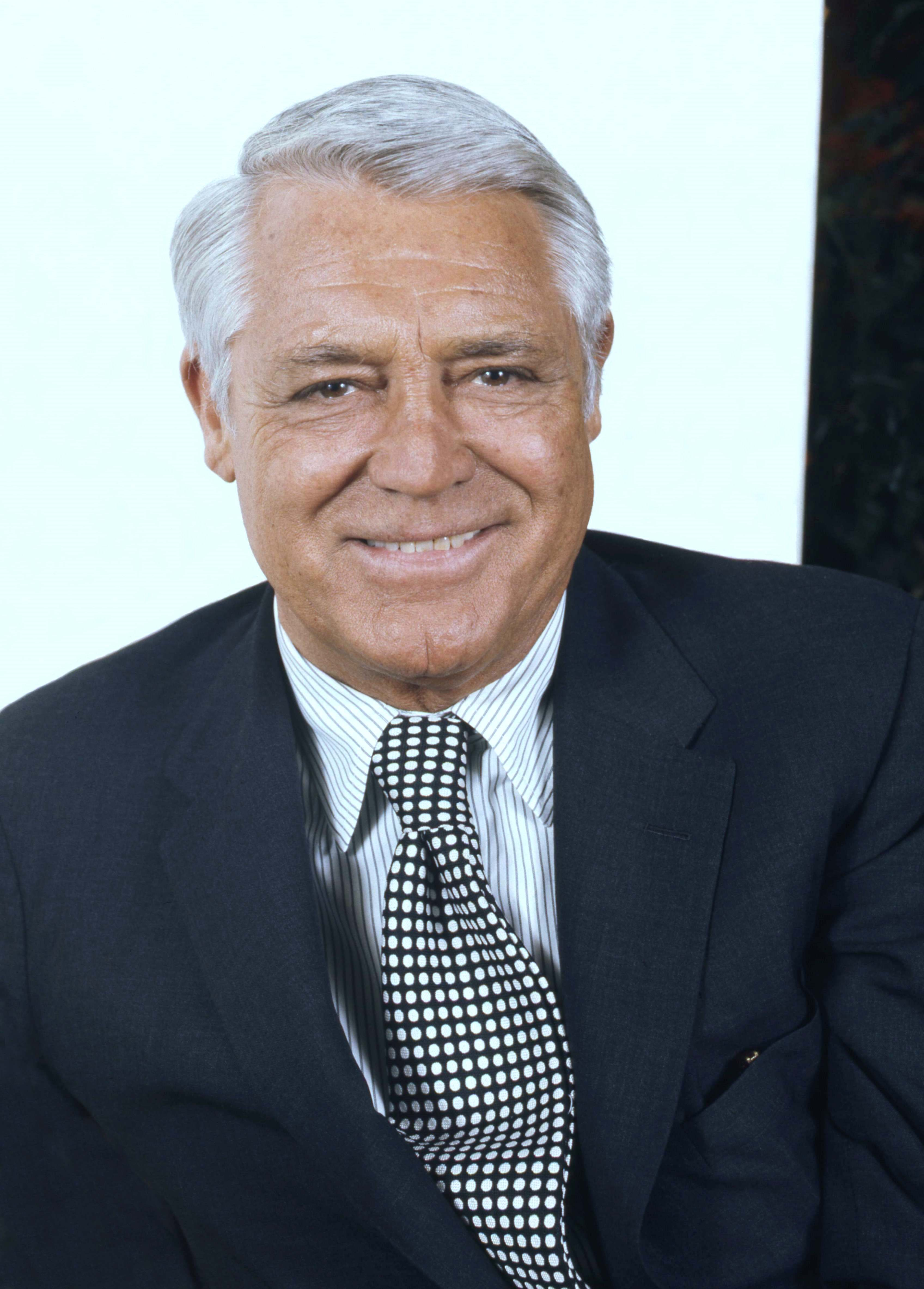 Cary Grant taken in London Lancaster Hotel